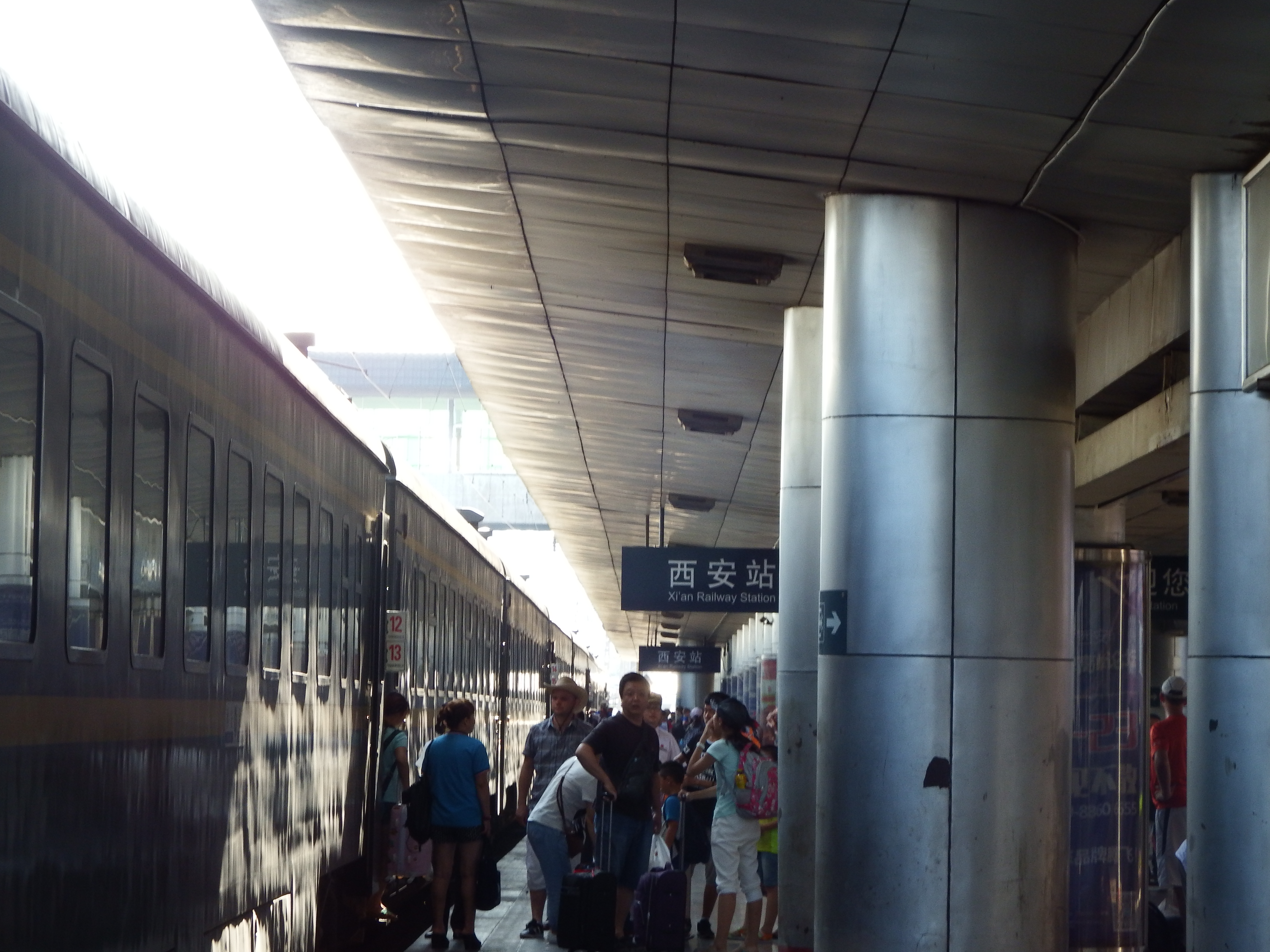 Through China by Train